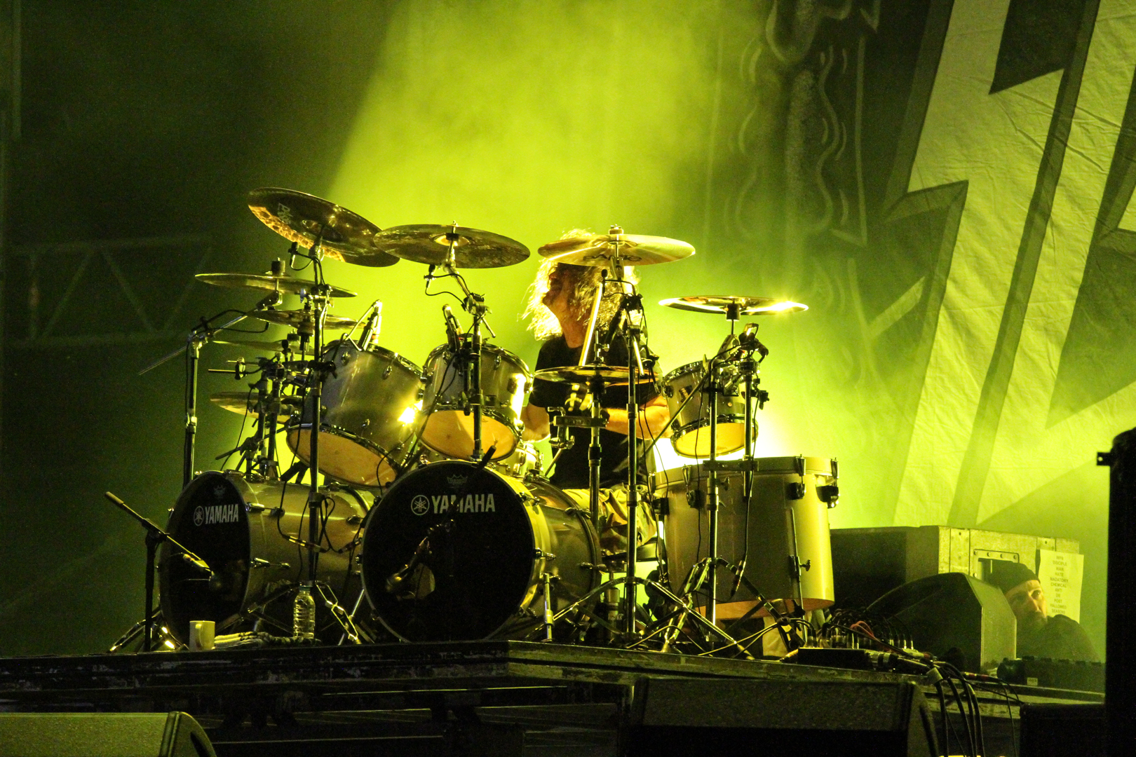 Festivalsommer This photo was created with the support of donations to Wikimedia Deutschland in the context of the CPB project "Festival Summer".